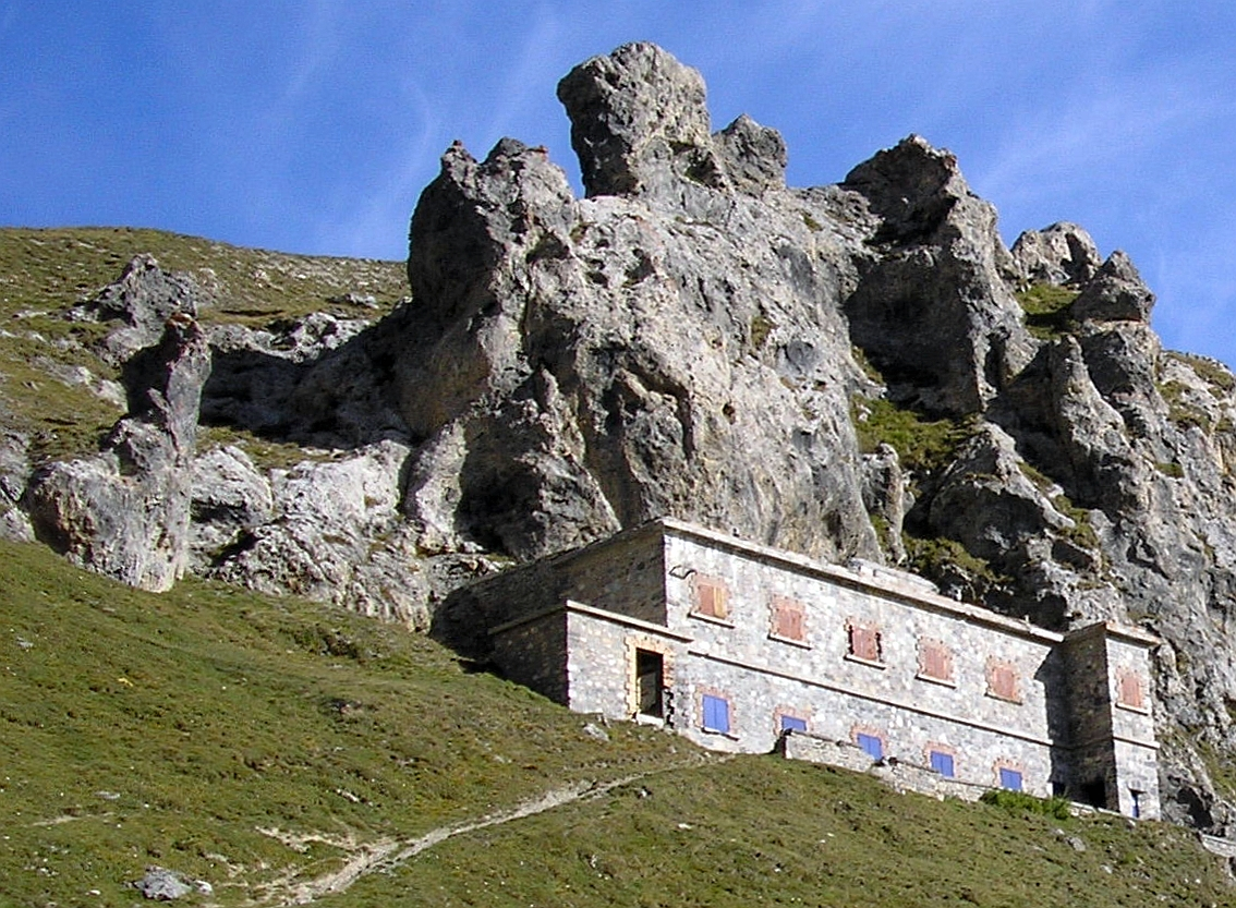 Pian dei Morti (near Rho pass) military barrack (French/Italian border, Cottian Apls)